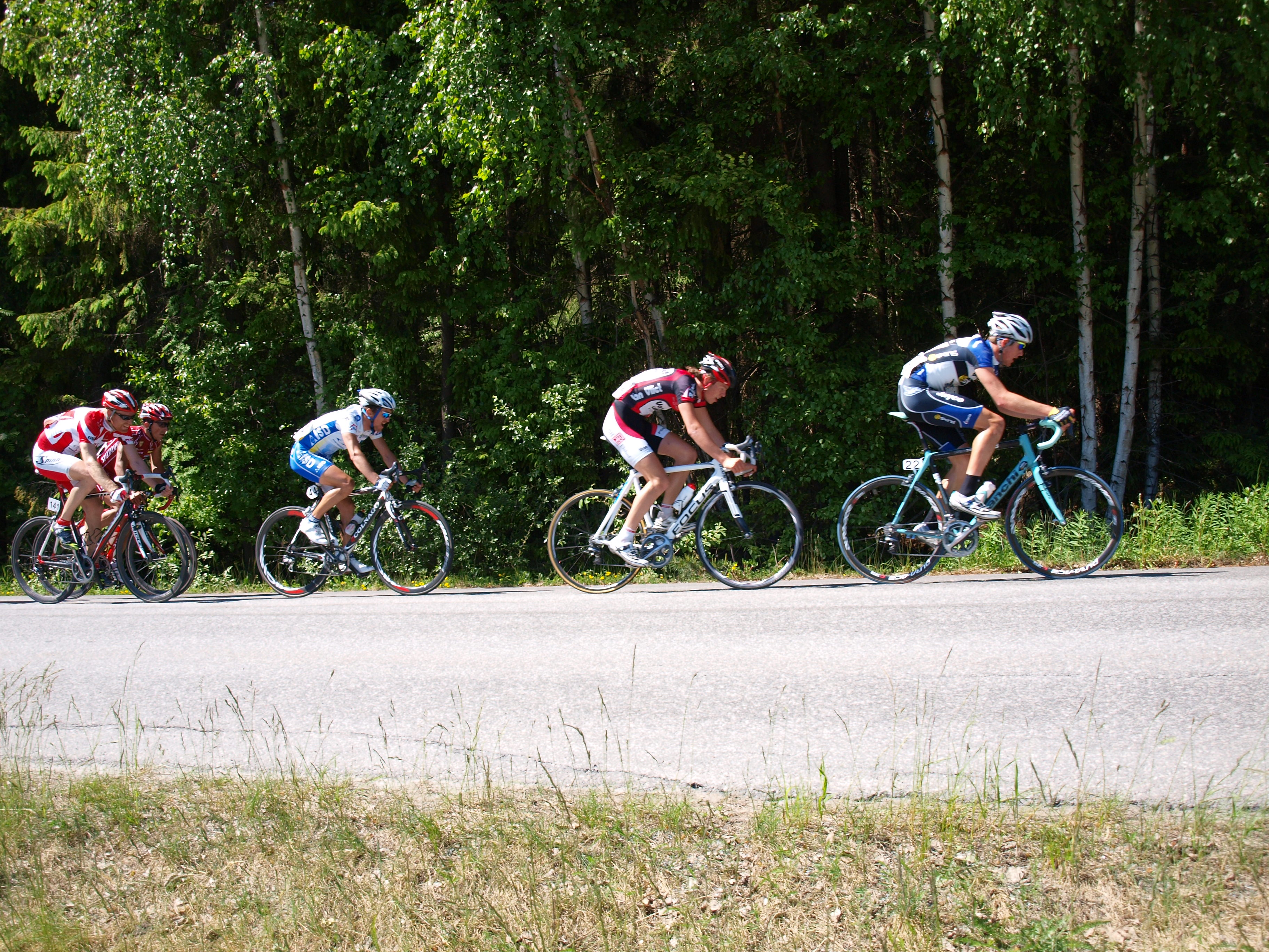 Australian cyclist Luke Durbridge, at Ringerike Grand Prix 2010.